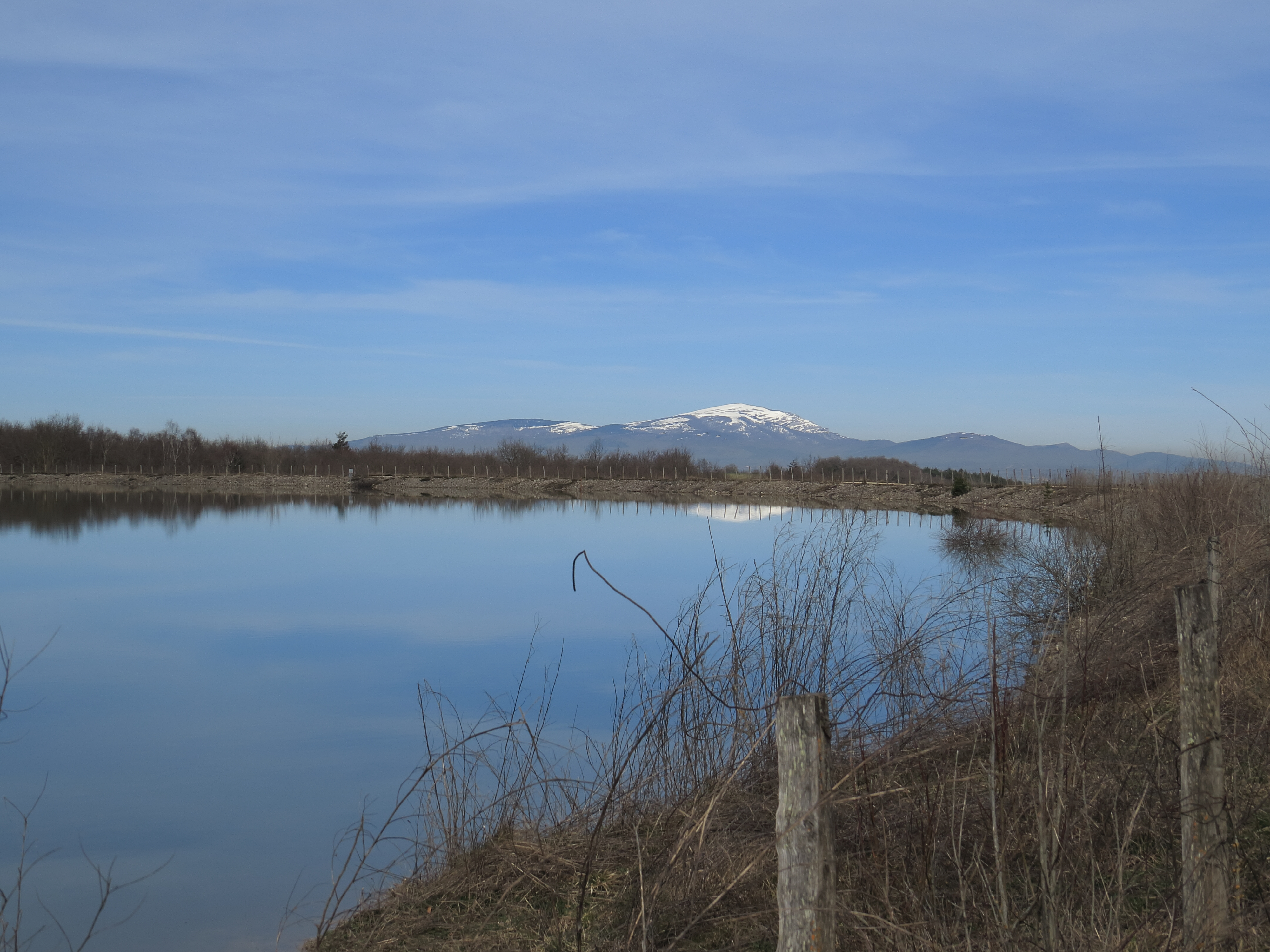 Water reservoir for agricultural irrigation, near Aberasturi. Álava, Basque Country, Spain; mountain Gorbea in the back